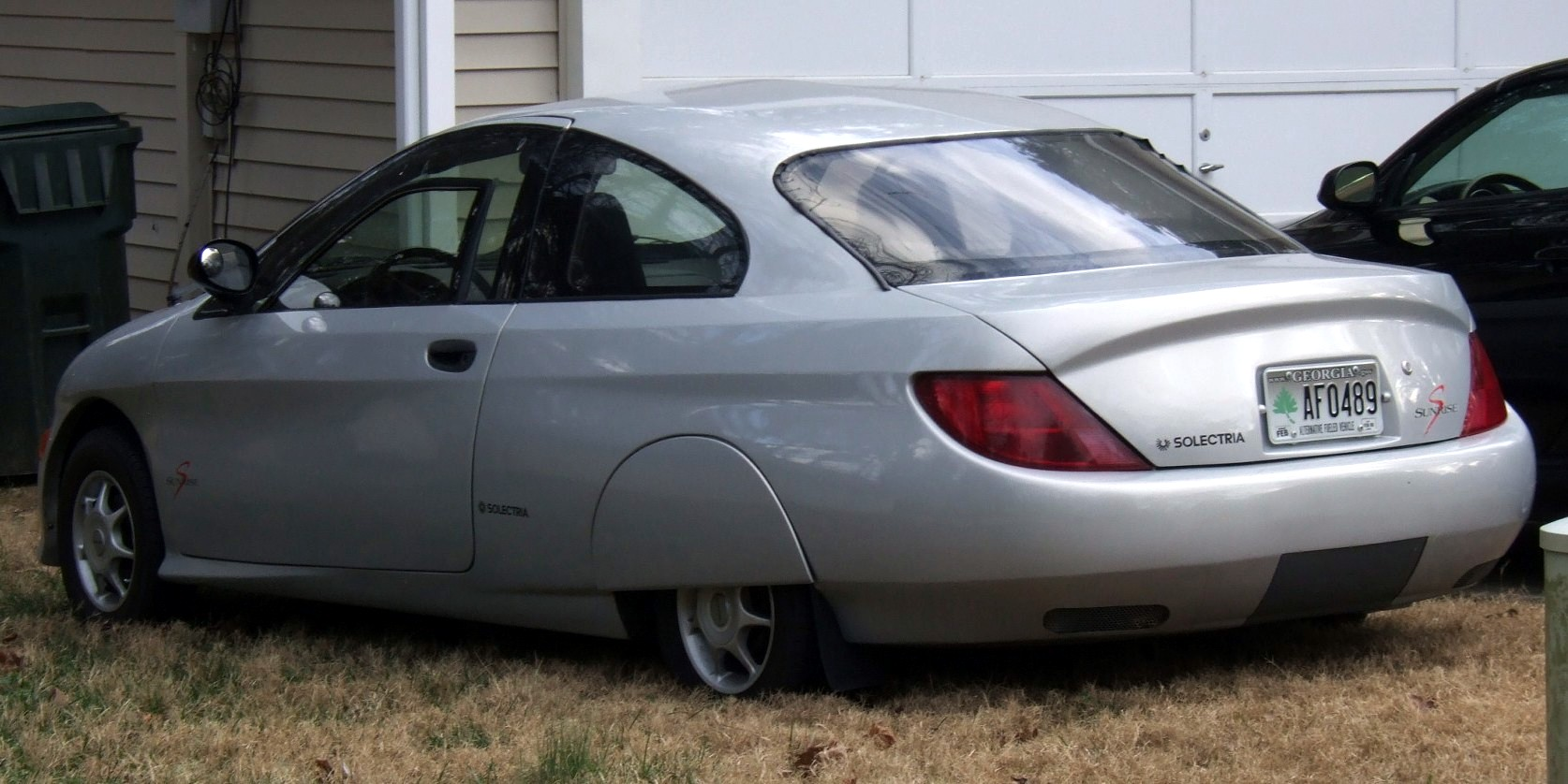 Solectria Sunrise parked at a home in Peachtree City, GA, USA